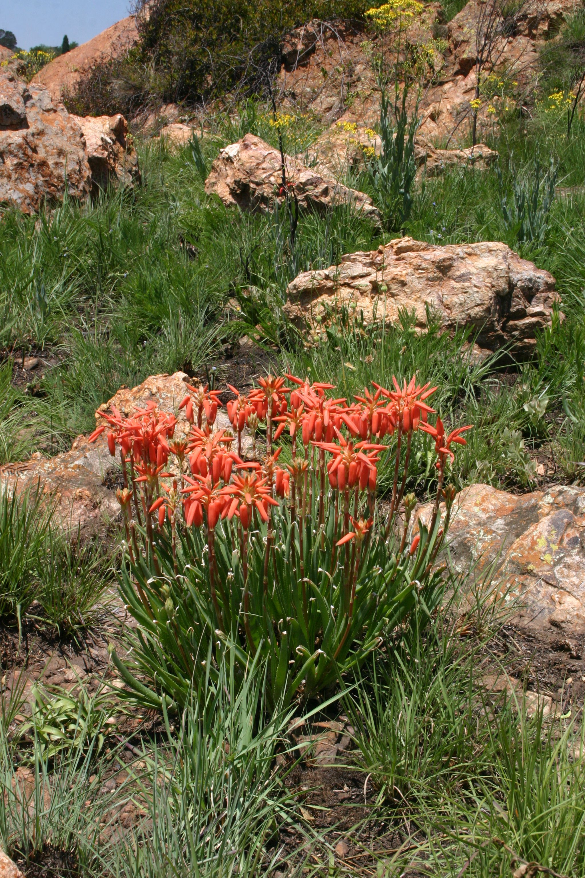 Aloe verecunda Pole Evans, on Witwatersrand hills, Noordheuwel, Krugersdorp